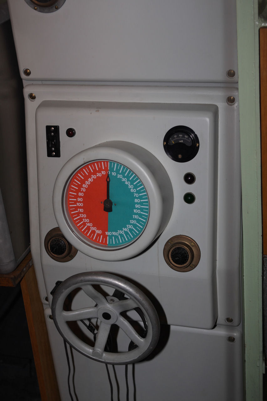 Controls for the sonar of submarine Wilhelm Bauer (ex U 2540).